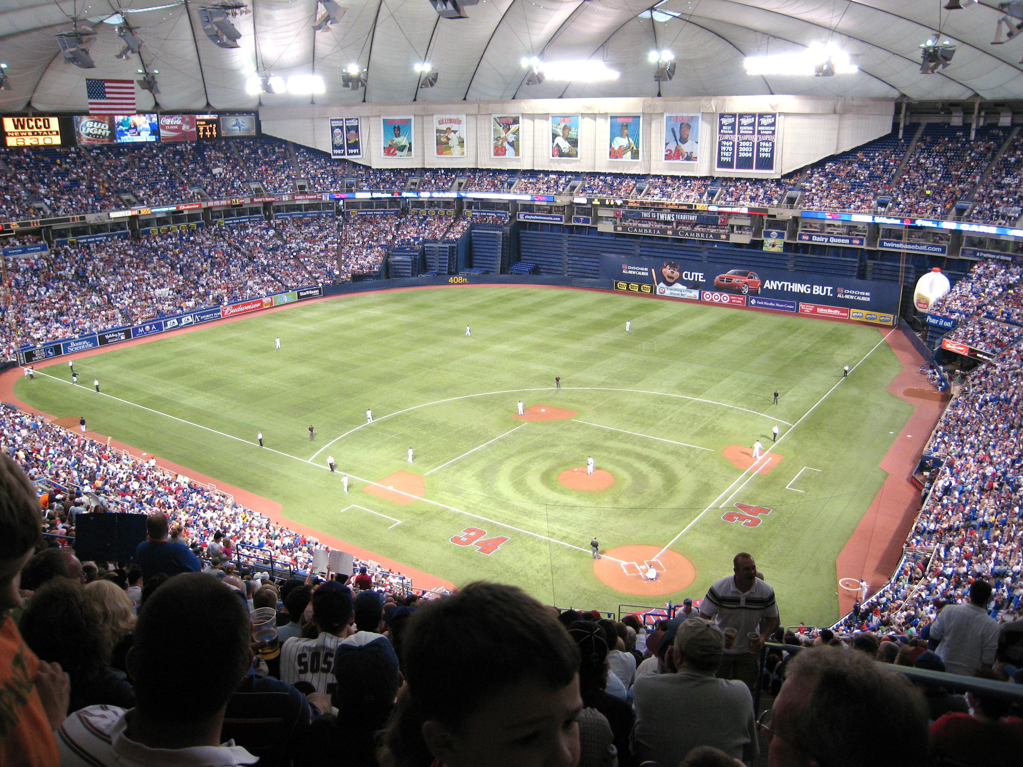 Hubert H. Humphrey Metrodome